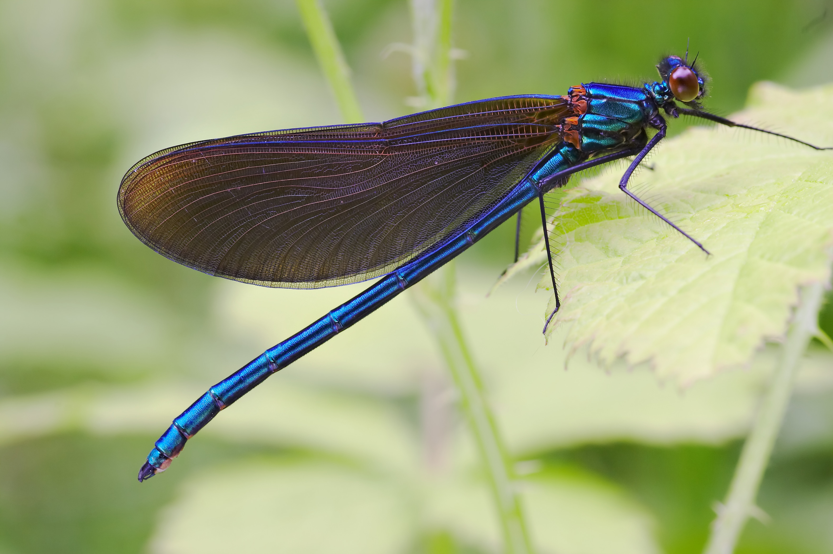 Male juvenile image of a Beautiful Damselfly. (Calopteryx virgo). The metallic blue wing color develops with age.